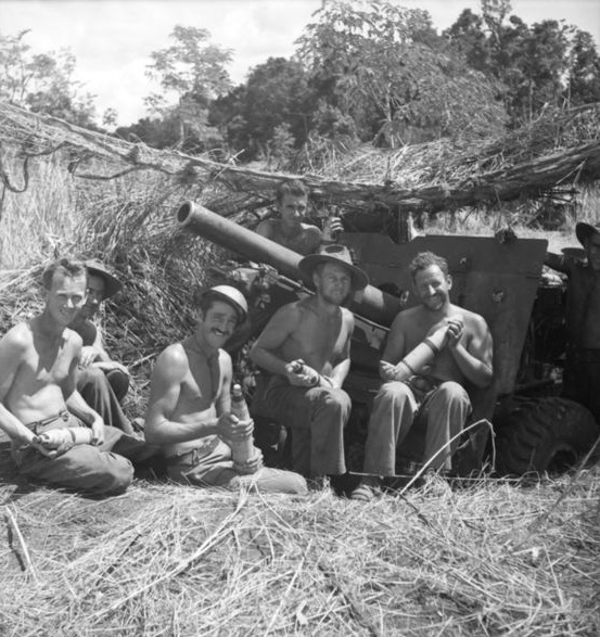 AWM caption: 1942-12-16. PAPUA. GONA. 55/53RD INFANTRY BATTALION CREW OF 25 POUNDER UNIT NEAR THE MUZZLE OF THEIR GUN. WHEN THE 25 POUNDERS FIRST ARRIVED BY PLANE AND OPENED FIRE ON THE JAPANESE, TROOPS STOOD UP AND CHEERED AT THE SOUND OF THE FIRST SHELL WHICH SCREAMED OVERHEAD. (NEGATIVE BY G. SILK).